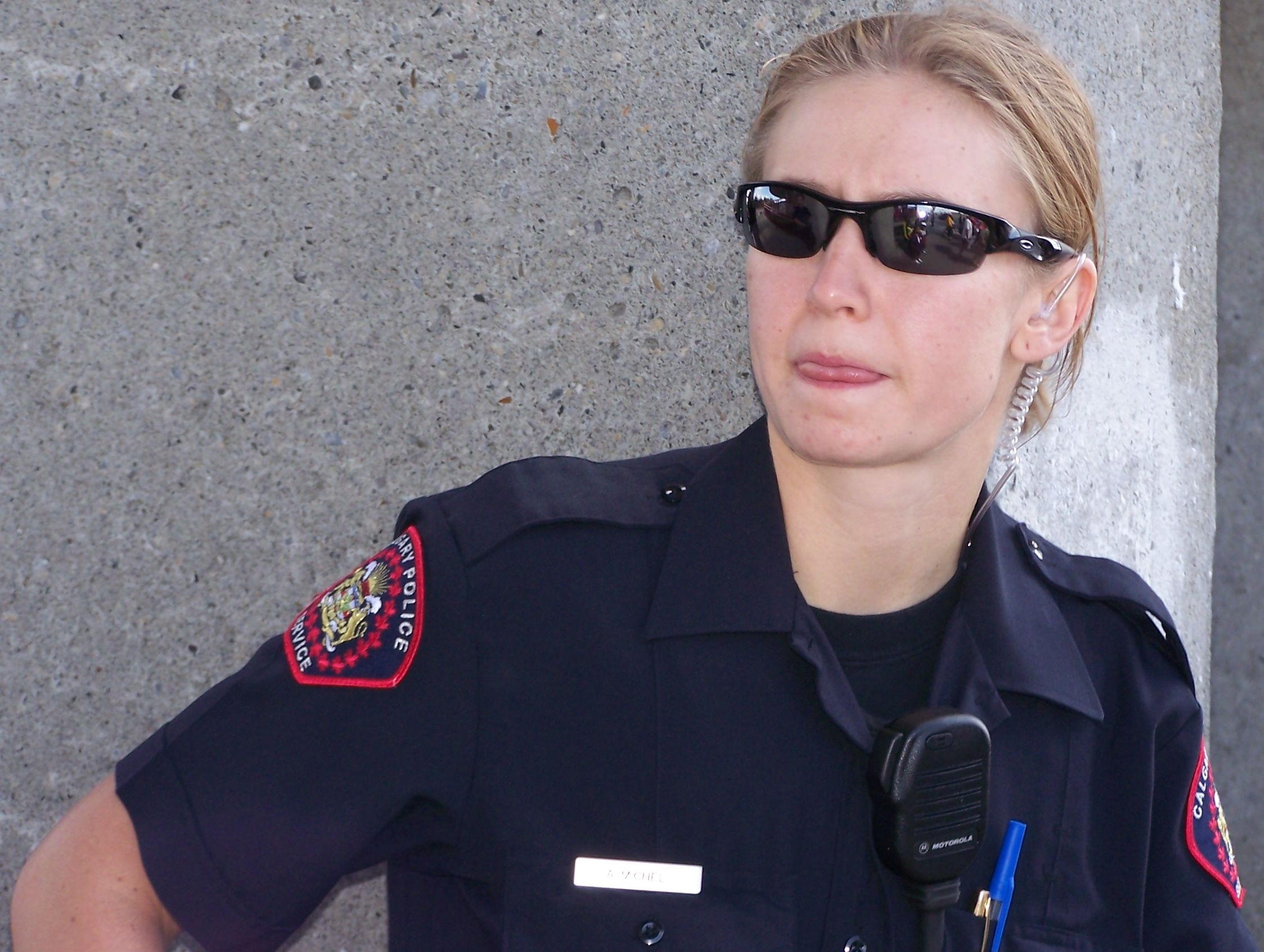 A member of the Calgary Police Service. This picture was taken at a rally by the Aryan Guard and a counter-protest to it in the Marlborough community of Calgary, Alberta, Canada.